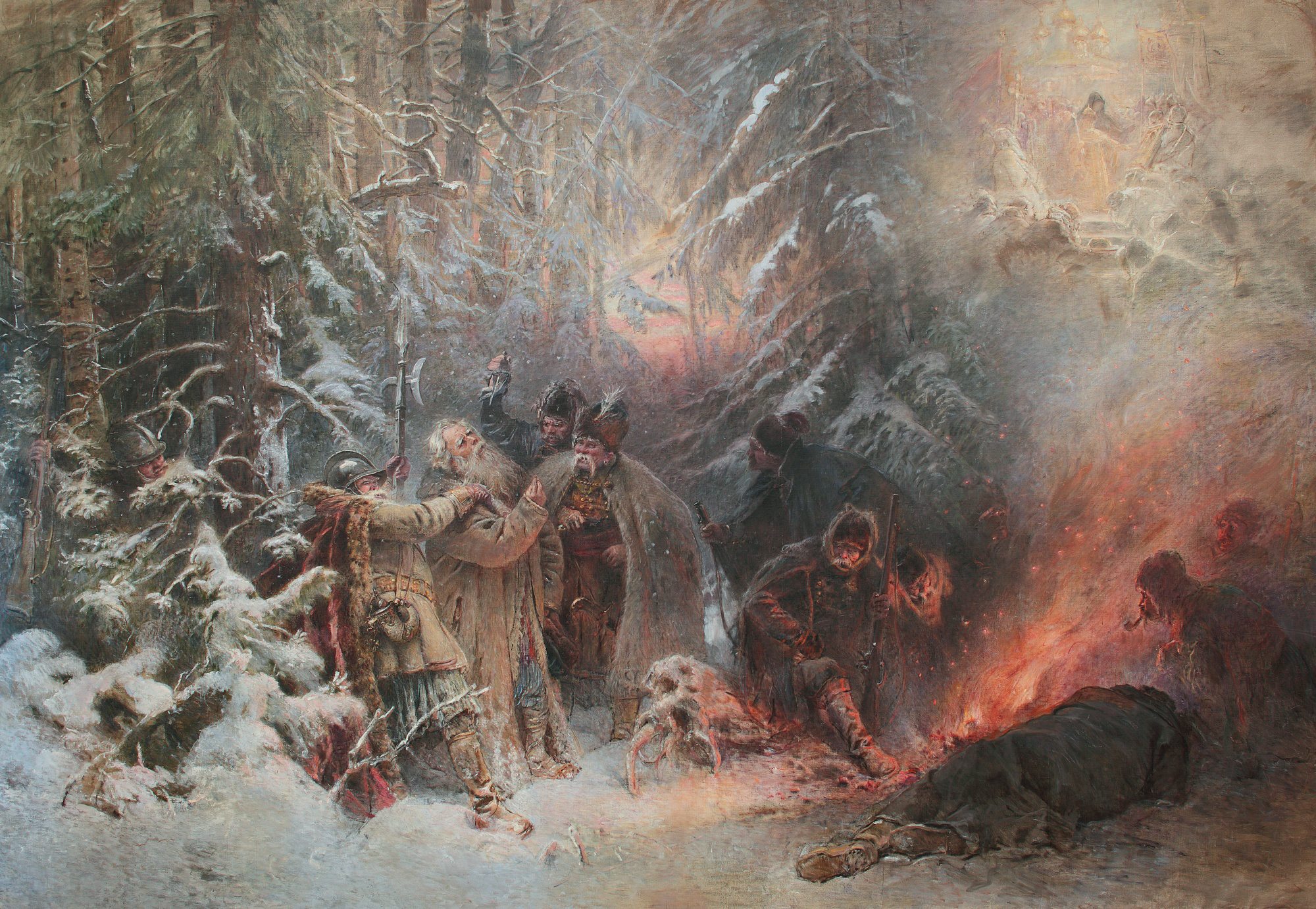 Ivan Susanin oil on canvas 301 x 464 cm 1914